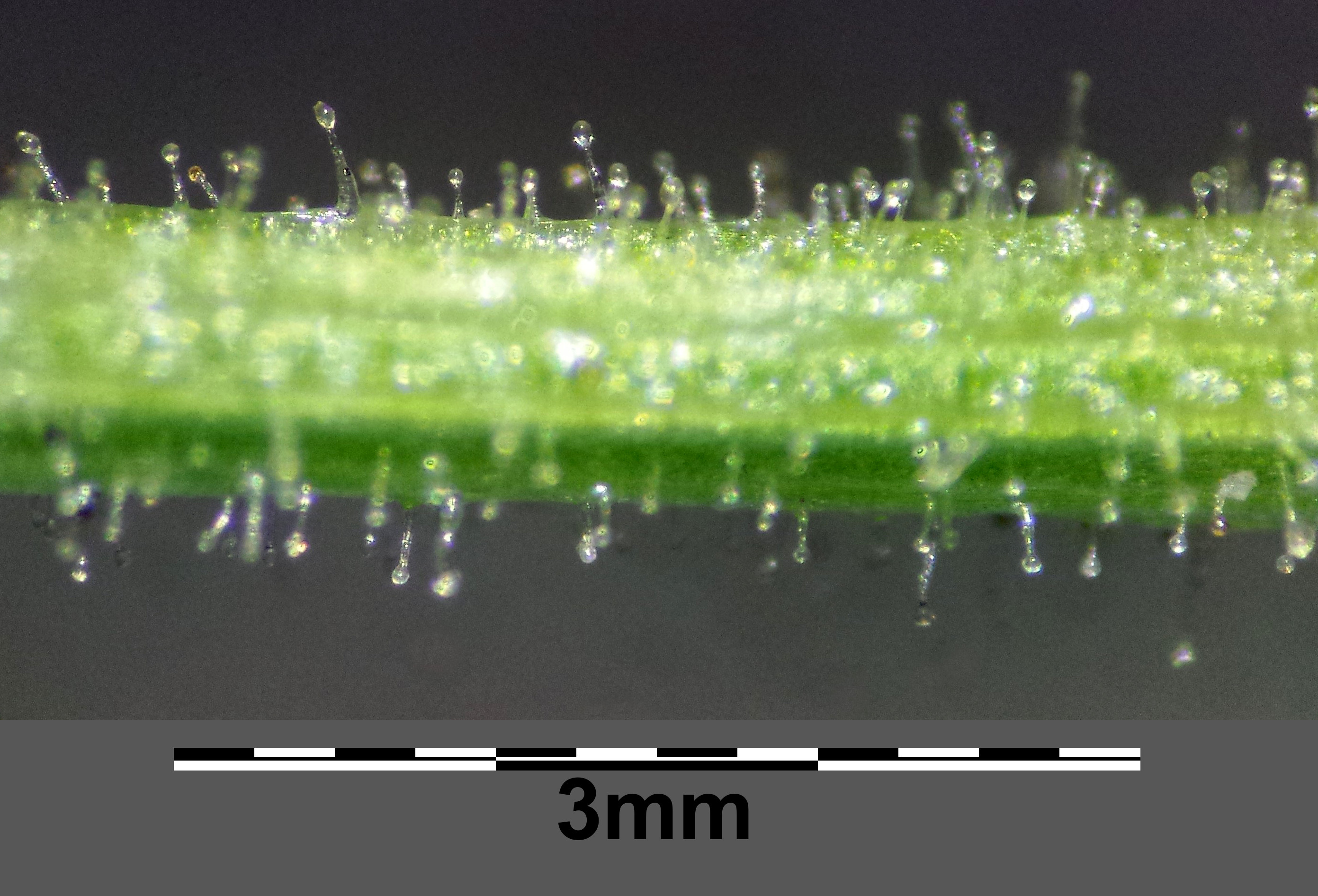 Stipe with gland hairs Taxonym: Senecio viscosus ss Fischer et al. EfÖLS 2008 ISBN 978-3-85474-187-9 Location: Jedlersdorf rail station, Vienna-Floridsdorf - ca. 160 m a.s.l. Habitat: ballast